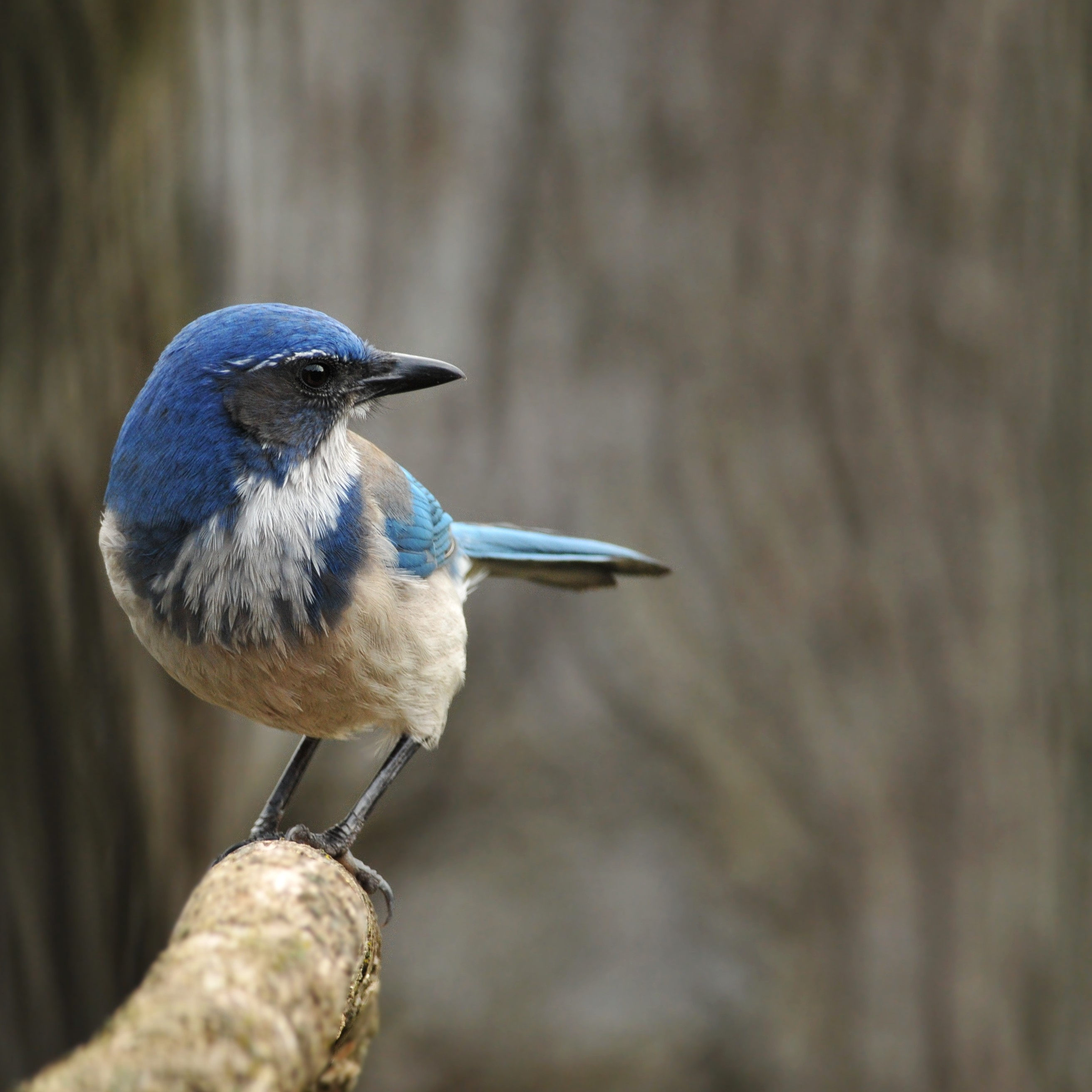 Western Scrub Jay aka California Scrub Jay, taken on February 28, 2010 in Mann, Seattle, WA, US. ID link